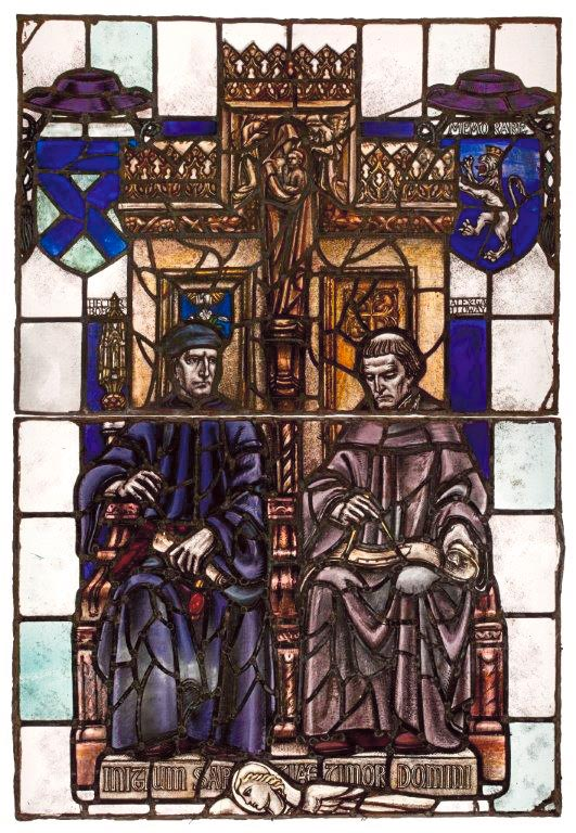 Maclachlan Window Boece (left) Galloway(right) top two panels. Stained Glass in store University of Aberdeen.